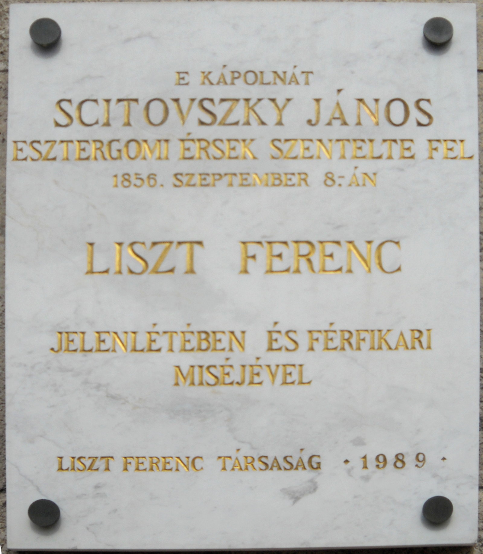 Commemorative plaque of János Scitovszky and Franz Liszt, Budapest District XIV, Hermina Street No 23 (on wall of the chapel)